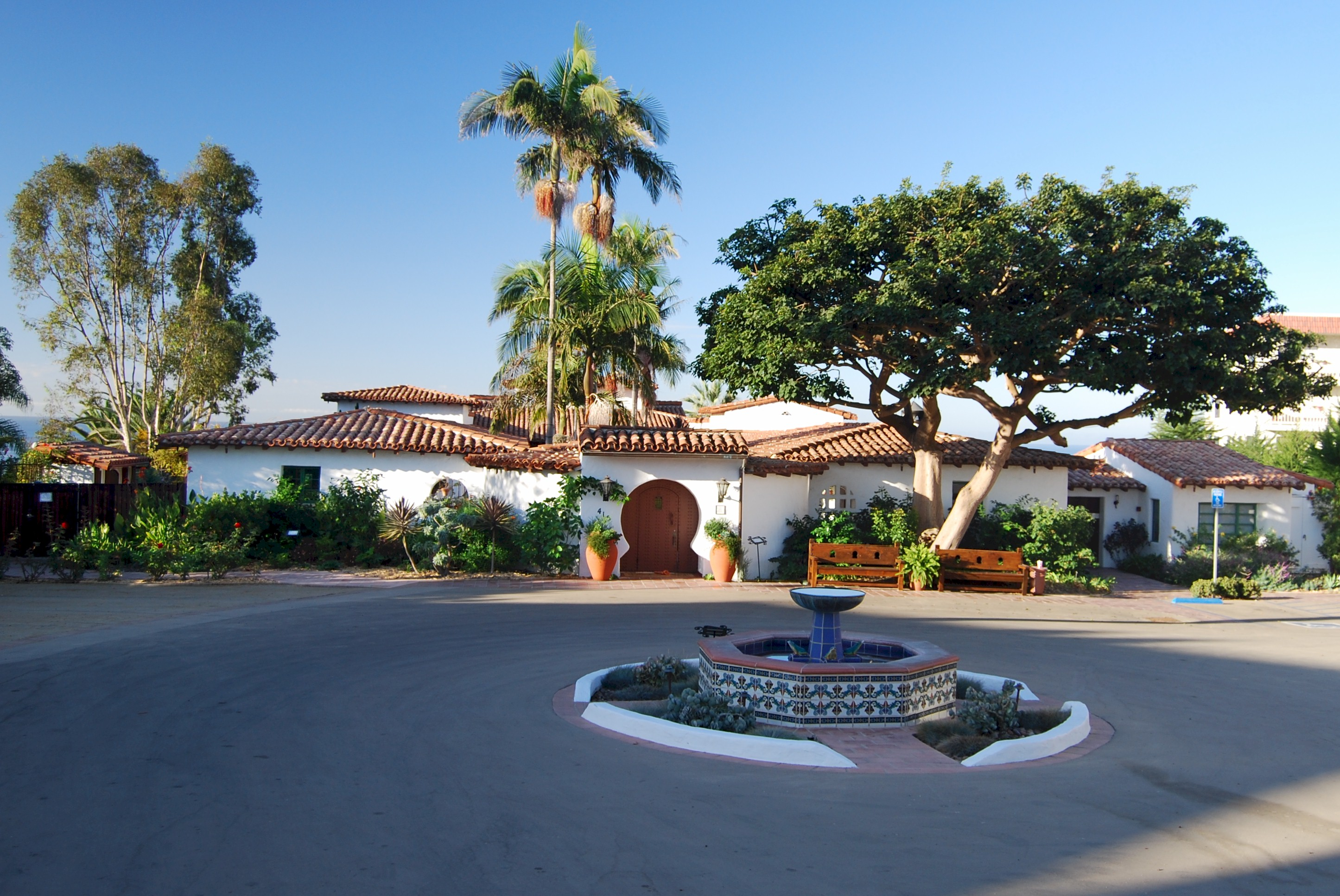 Casa Romantica, 415 Avenida Granada San Clemente